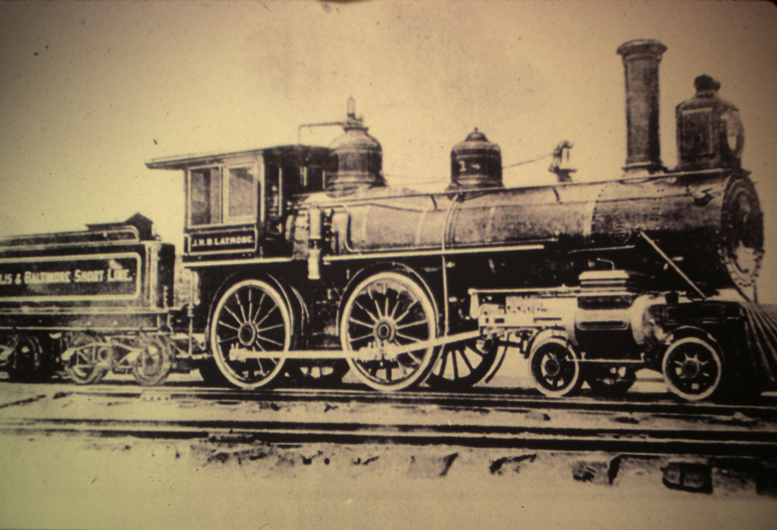 4-4-0 steam locomotive of the Annapolis & Baltimore Short Line (predecessor of the Baltimore and Annapolis Railroad) in the late 19th century